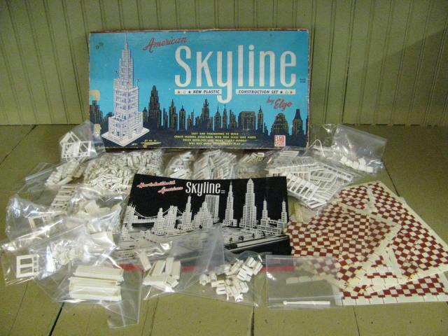 A view of the box type American Skyline sets showing the box and contents of the set..Also pictured is the instruction booklet.